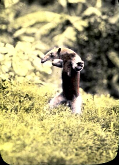 Tamandua mexicana (mammal). Anteater standing on its hind legs, 1928. Name of Expedition: Crane Pacific Expedition Participants: Sidney Nichols Shurcliff, Karl P. Schmidt, Cornelius Crane, William L. Moss, Albert W. Herre Expedition Start Date: c. 11/28/1928 Expedition End Date: c. 8/12/1929 Purpose or Aims: Zoology (Birds, mammals, fish, reptiles, invertebrates) Location: Central America, Panama, Barro Colorado Island Original material: Hand-colored Lantern Slide Digital Identifier: A105150_crane8_2c Learn more about The Field Museum's Library Photo Archives.